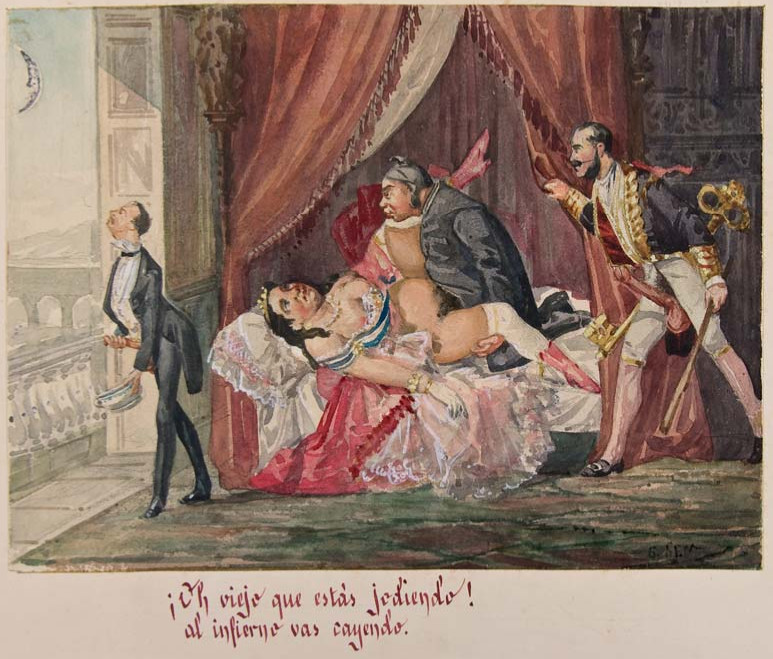 Watercolor 6 of Los Borbones en pelota. Left: Francisco de Asís holding a chamber pot; Isabel II in bed being fornicated by Father Antonio María Claret; on the right, Carlos Marfori. Text: Oh, you're fucking old! / Hell's going to fall!